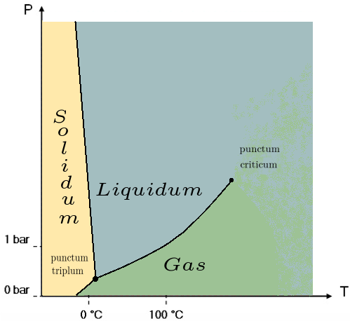 different version, simpler and in latin